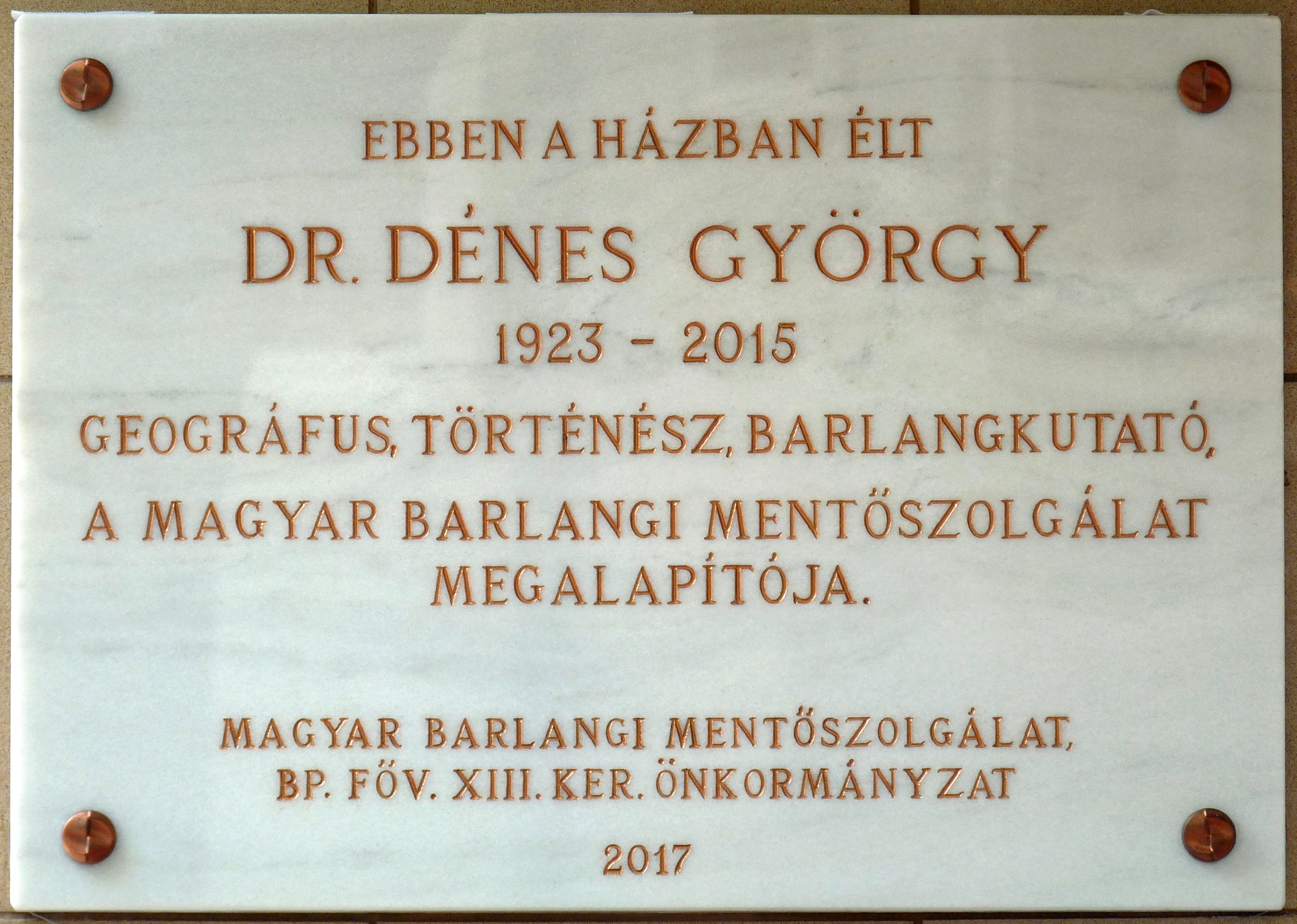 Commemorative plaque to Mr. György Dénes (1923–2015) Hungarian geographer, historian and speleologist, founder of the cave-rescue service in Hungary. It was affixed to the front of his former home and unveiled on April 21, 2017. (Budapest, District XIII, Borbély Street Nr 5)